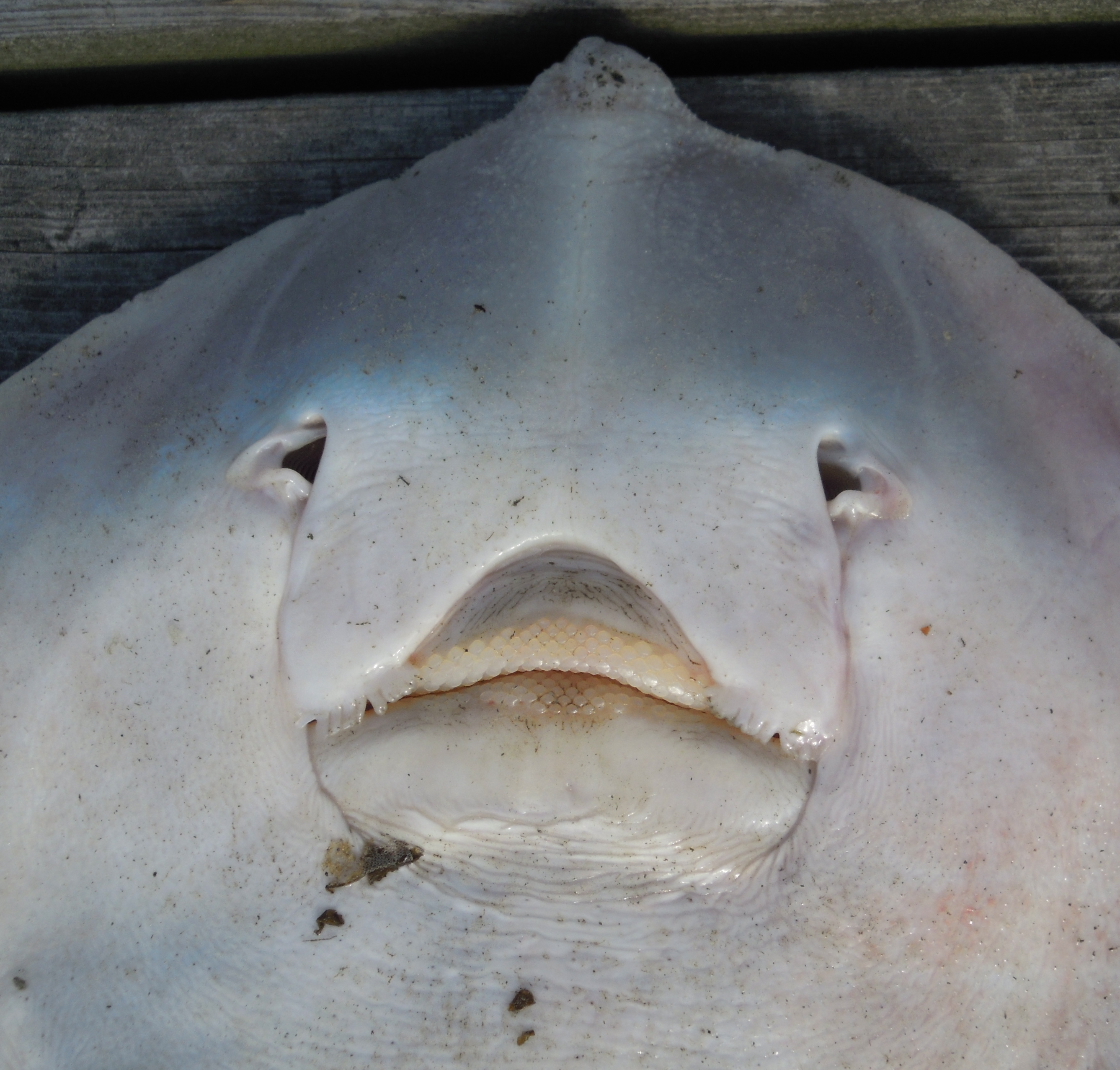 Thornback ray - Raja clavata. Stavern, Norway. You are free to use this picture (see license), as long as you write: Photo: Arnstein Rønning